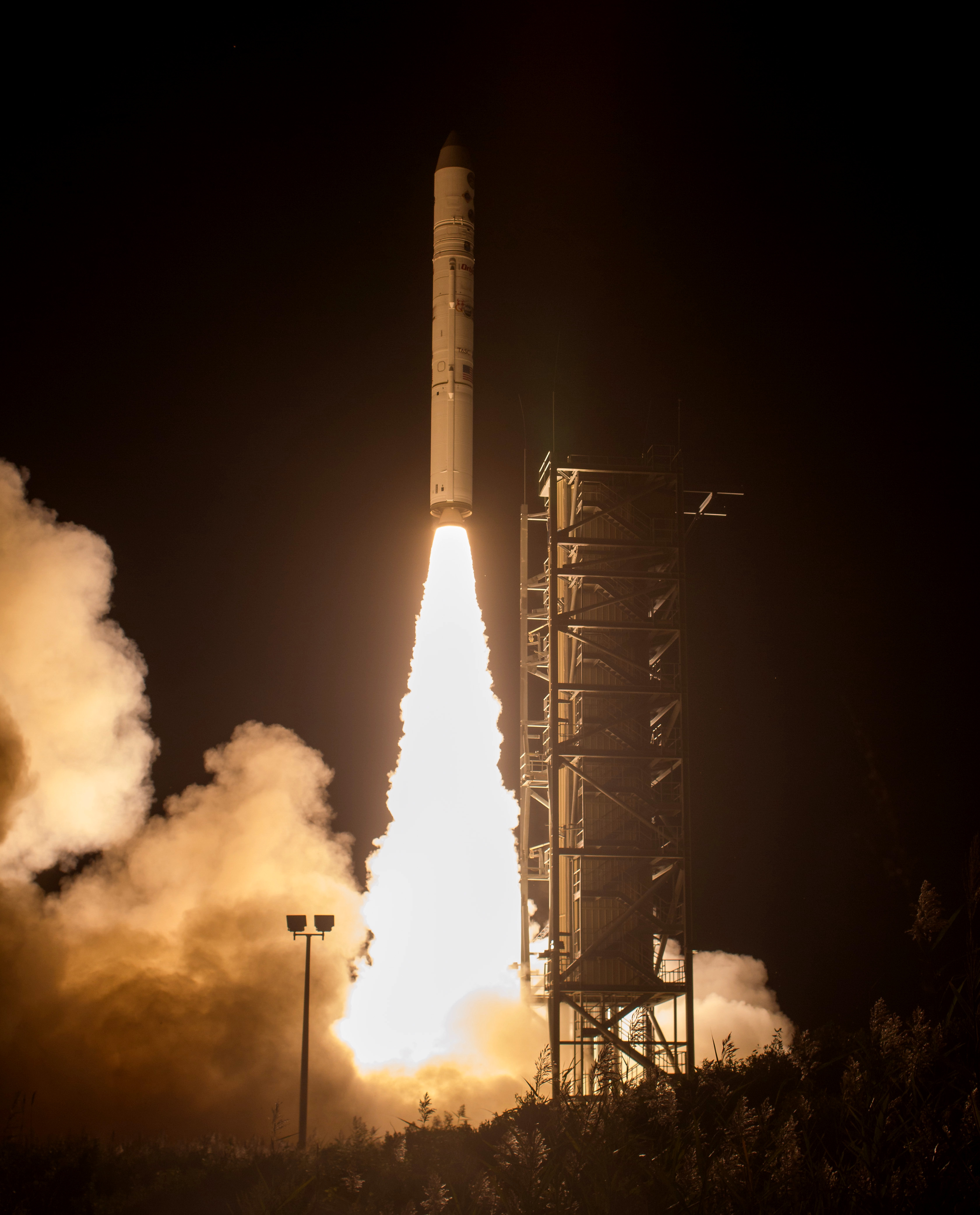 NASA's Lunar Atmosphere and Dust Environment Explorer (LADEE) observatory launches aboard the Minotaur V rocket from the Mid-Atlantic Regional Spaceport (MARS) at NASA's Wallops Flight Facility, Friday, Sept. 6, 2013 in Virginia. LADEE is a robotic mission that will orbit the moon where it will provide unprecedented information about the environment around the moon and give scientists a better understanding of other planetary bodies in our solar system and beyond.